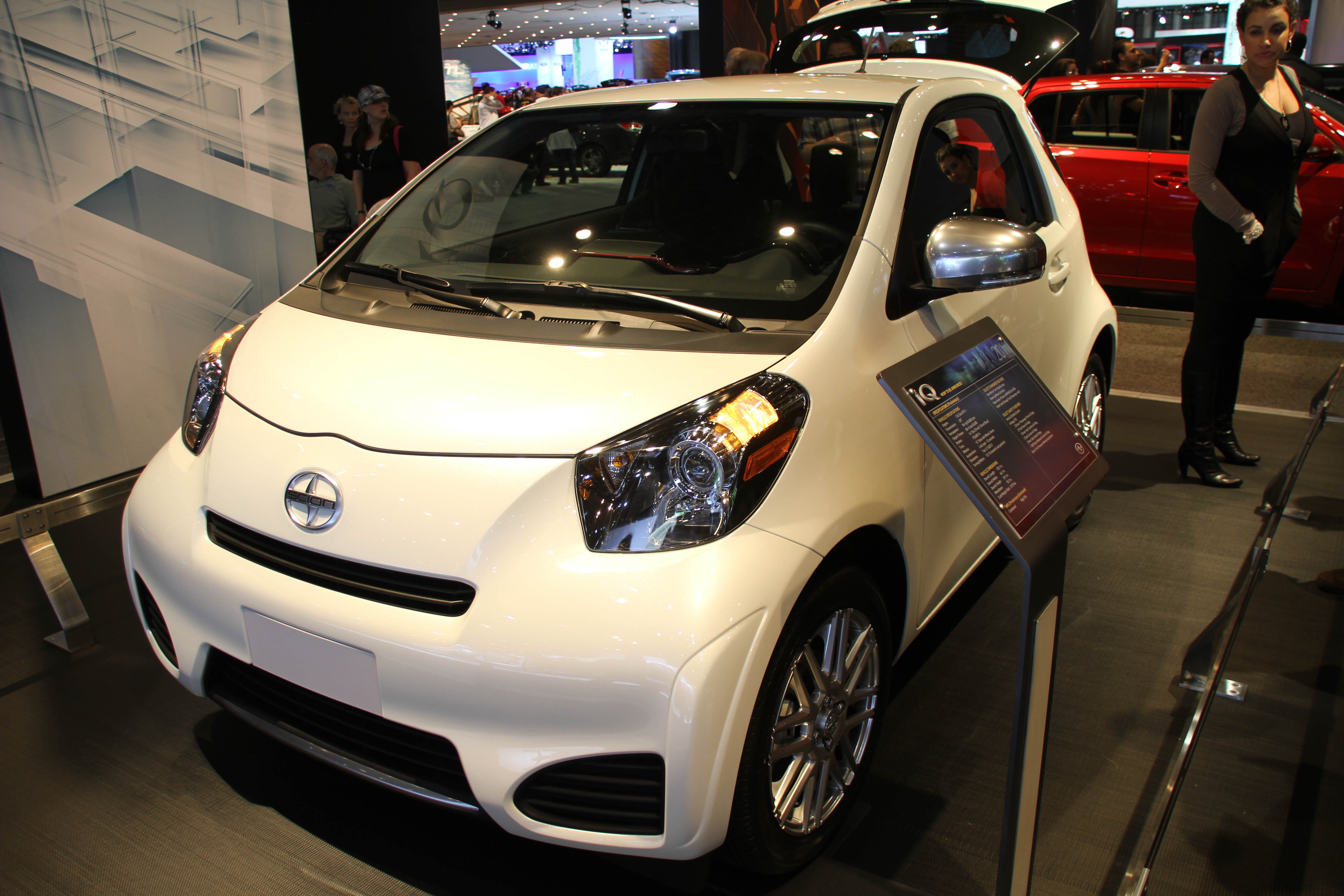 Scion iQ at the 2010 New York International Auto Show.